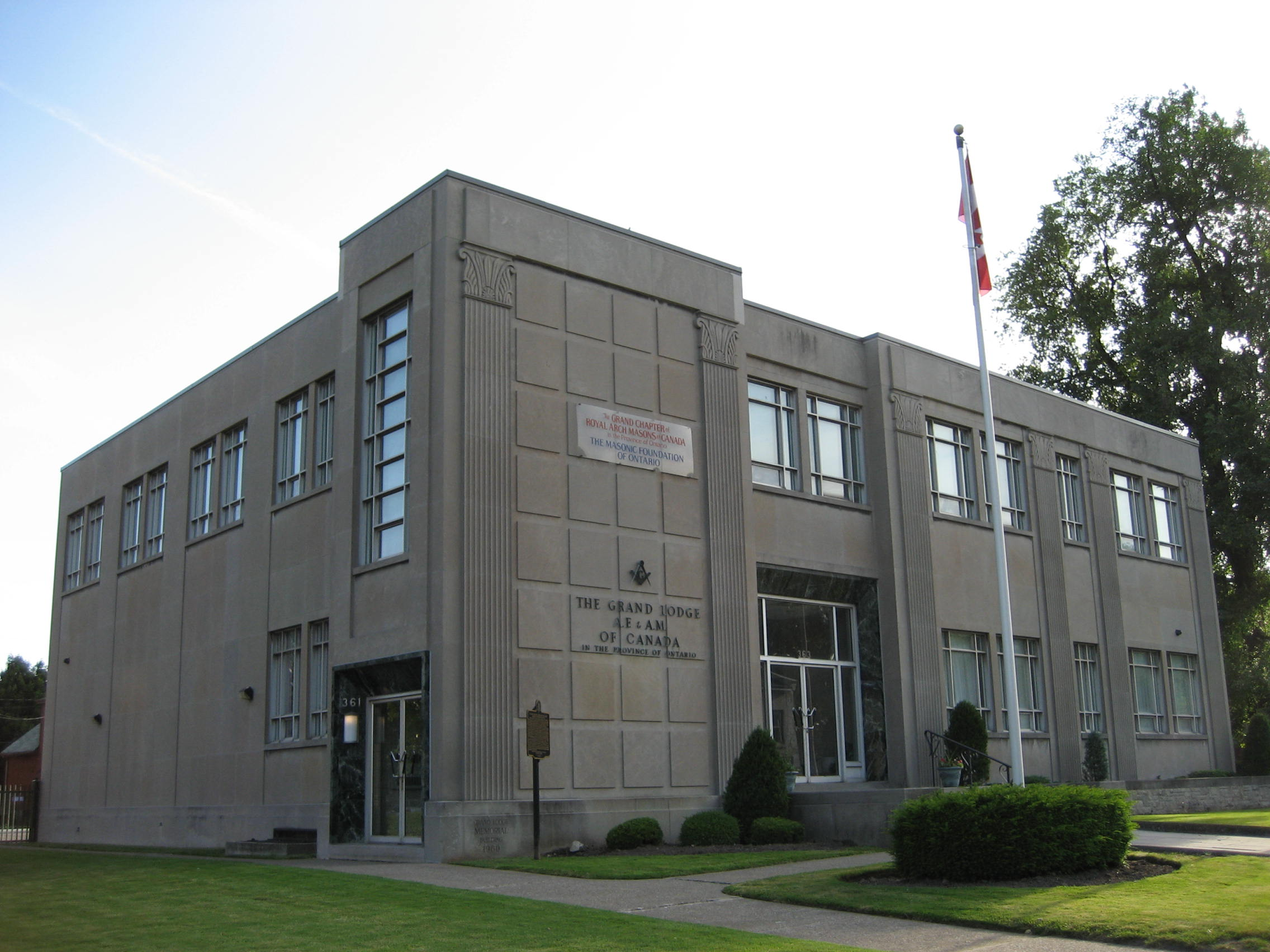 Grand Lodge of Canada building, King Street West, downtown Hamilton